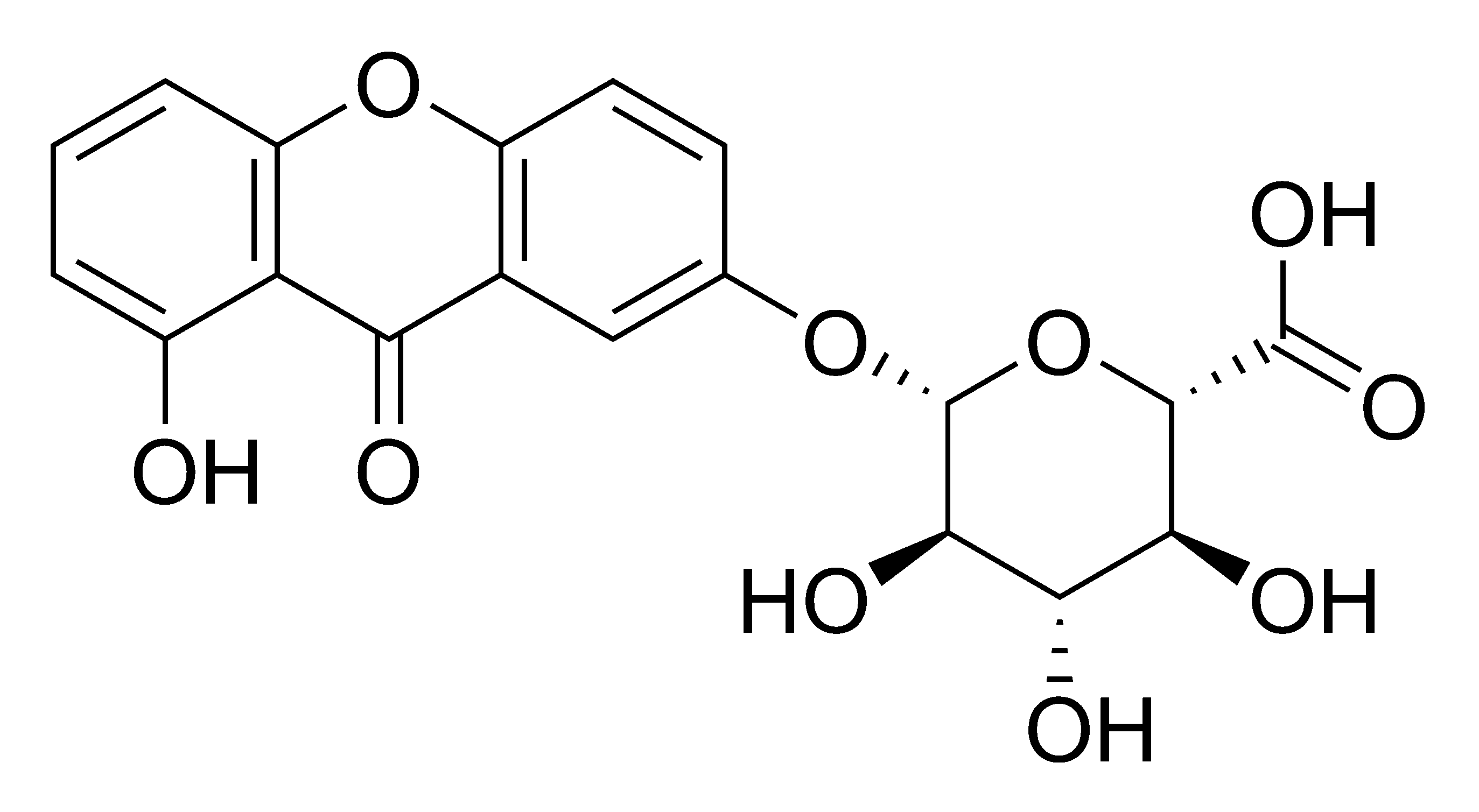 Chemical structure of Euxanthic acid